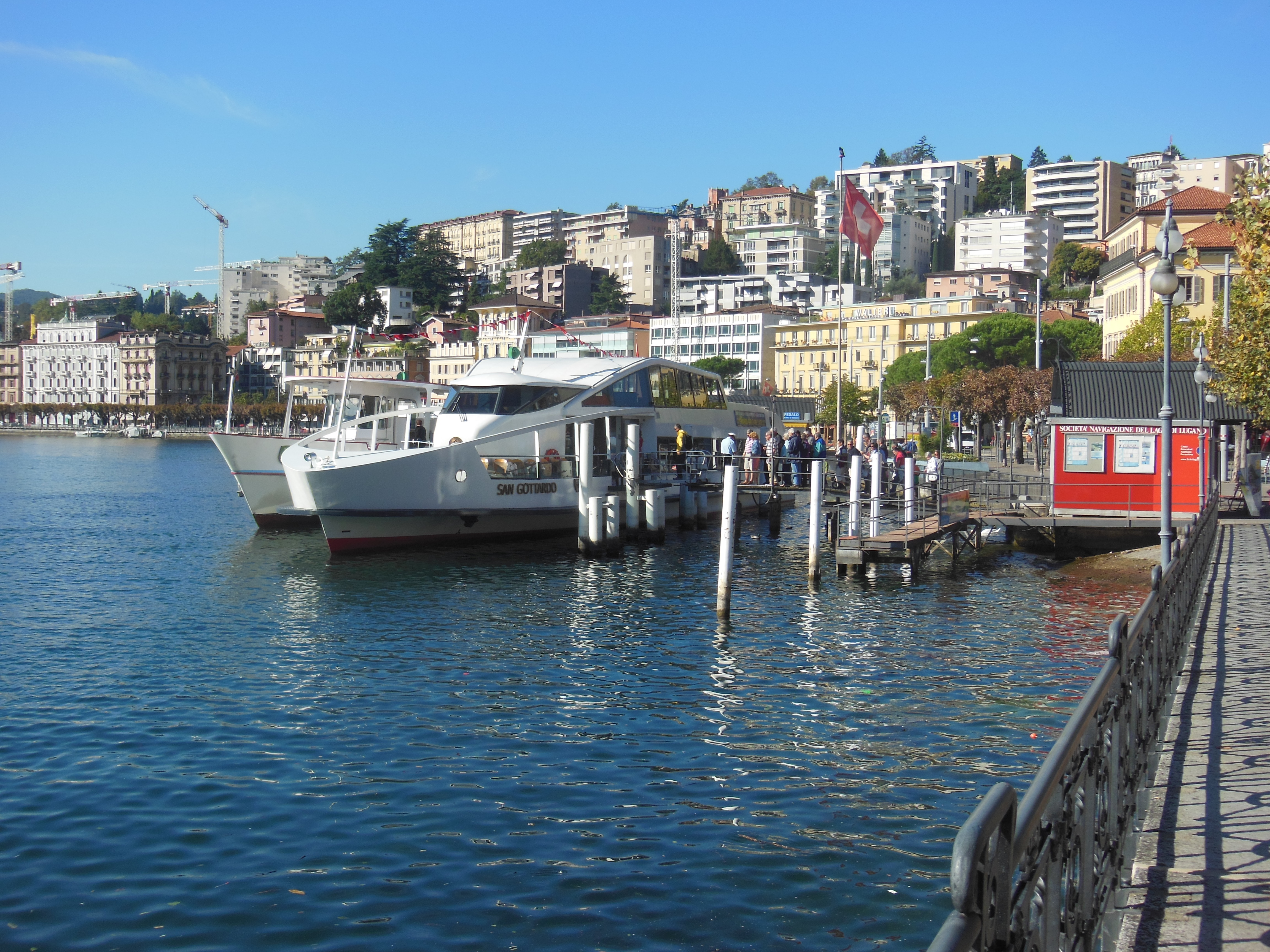 The MV San Gottardo of the Società Navigazione del Lago di Lugano, alongside the Lugano Giardino landing stage in central Lugano with the MV Paradiso of the same company breasted-up outboard. For more information, see wikipedia article Società Navigazione del Lago di Lugano.